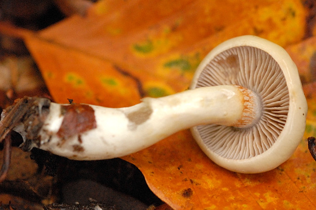 Cortinarius eburneus from Commanster, Belgium. If you think this is a different taxon, please contact James Lindsey.